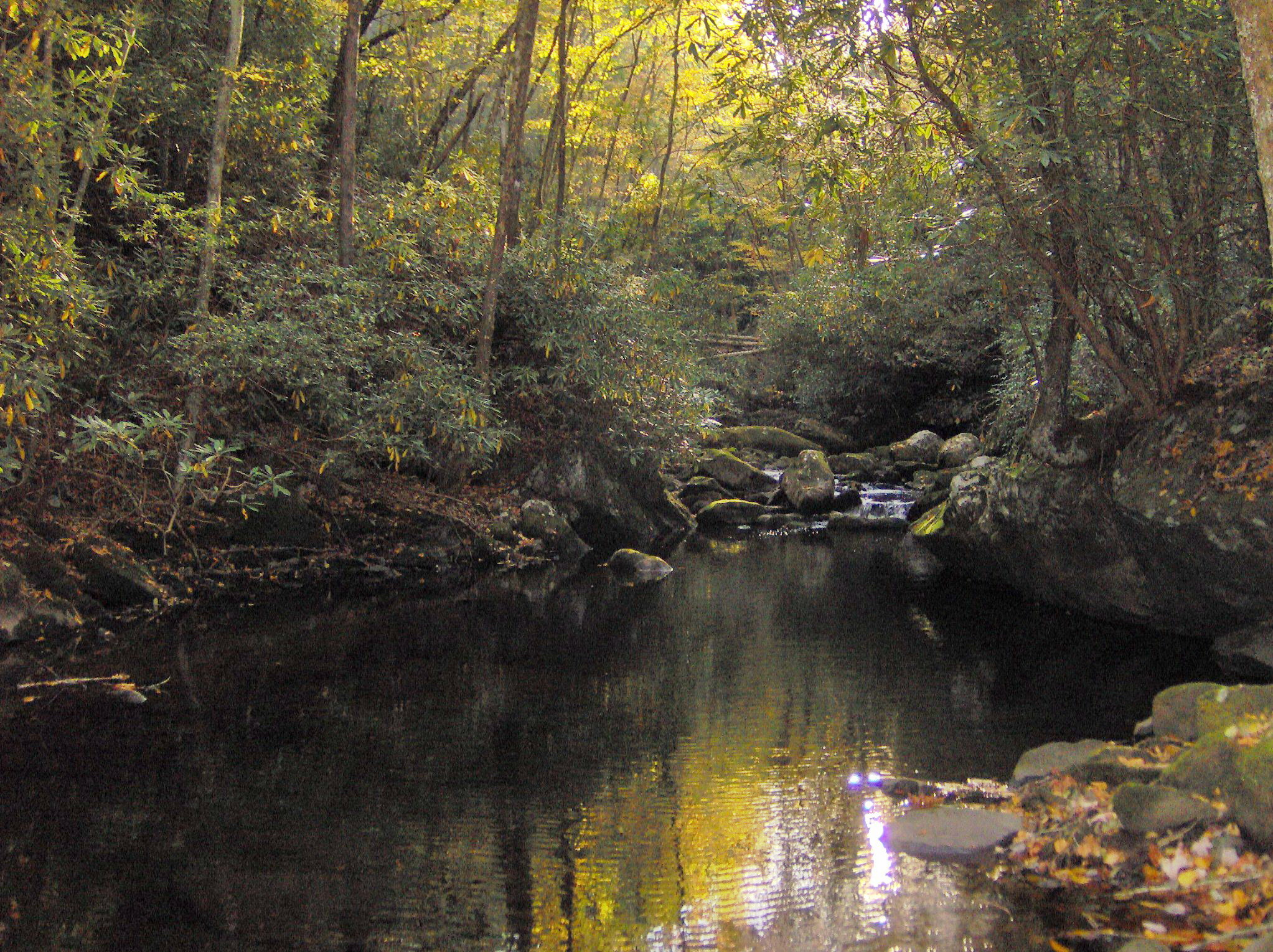 Lynn Camp Prong in the Great Smoky Mountains of East Tennessee, just above its confluence with Thunderhead Prong.